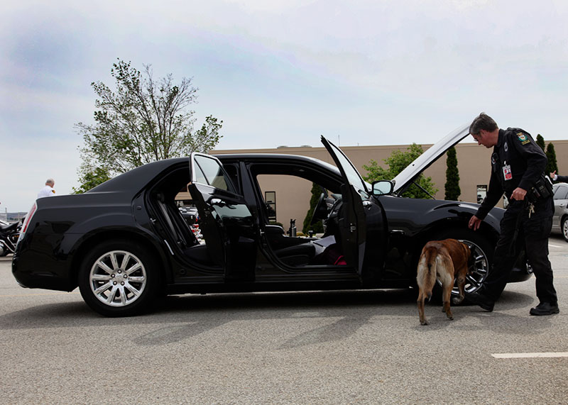 An Allegheny County Police officer and his working dog, a Belgian Malinois Shepherd, screening a Secret Service vehicle for explosives on April 17, 2012. The vehicle was part of used to provide security during the visit of Michelle Obama to Pittsburgh, where she met with military members and their families at the 911th Airlift Wing,USAF Reserve Base.